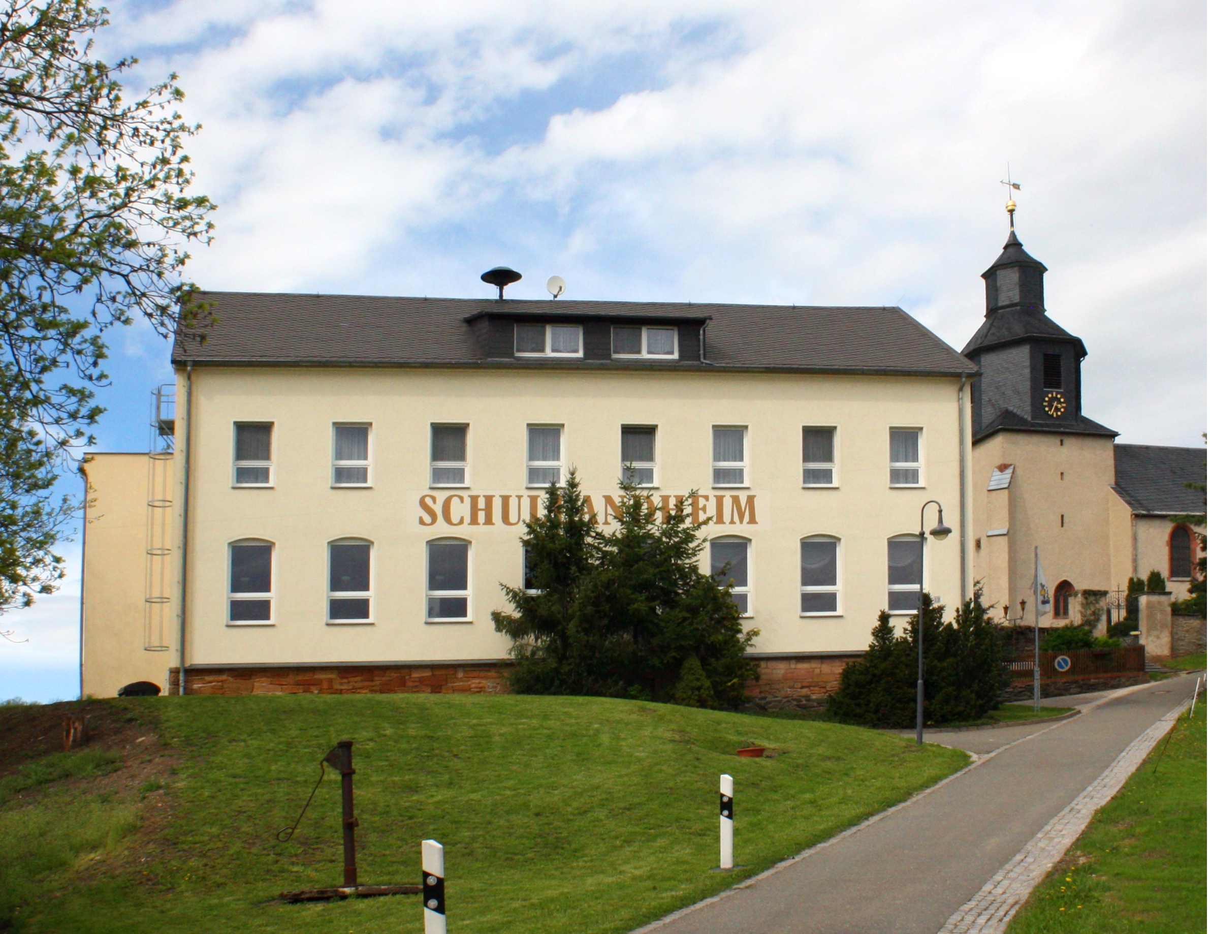 School youth hostel in Seelingstädt near Gera/Thuringia